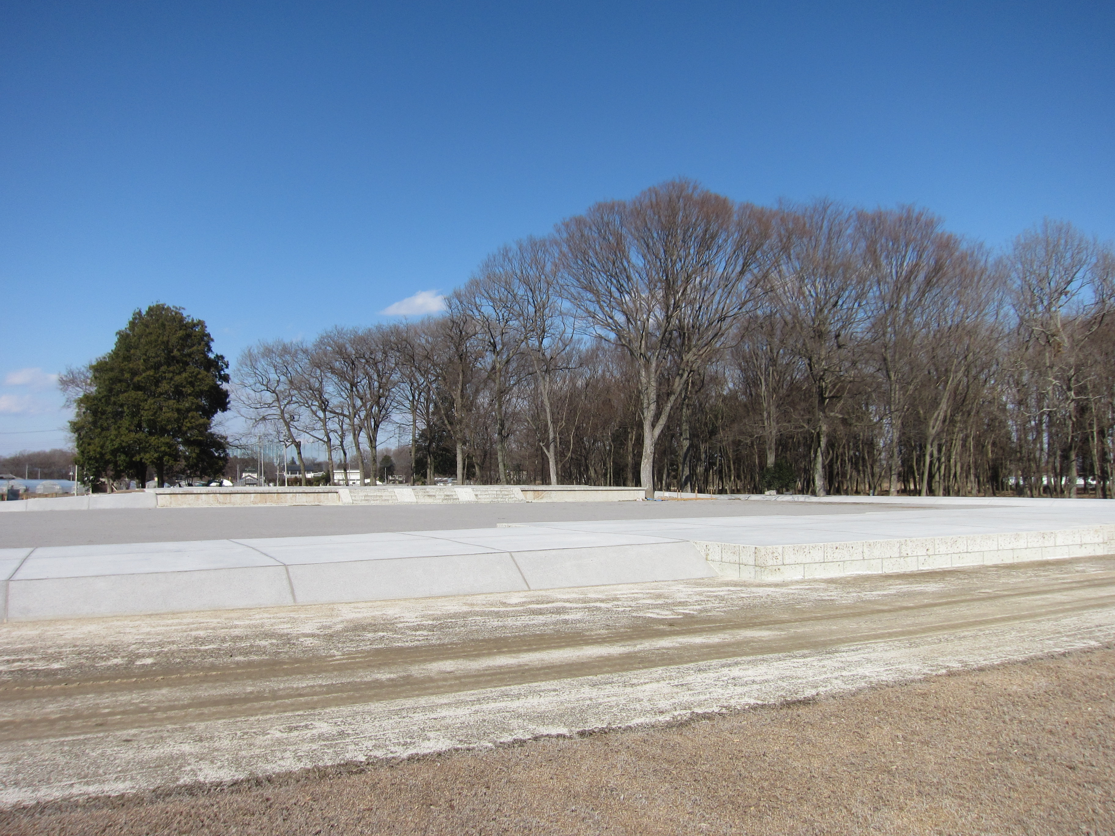 Shimotsuke Kokubunji Site